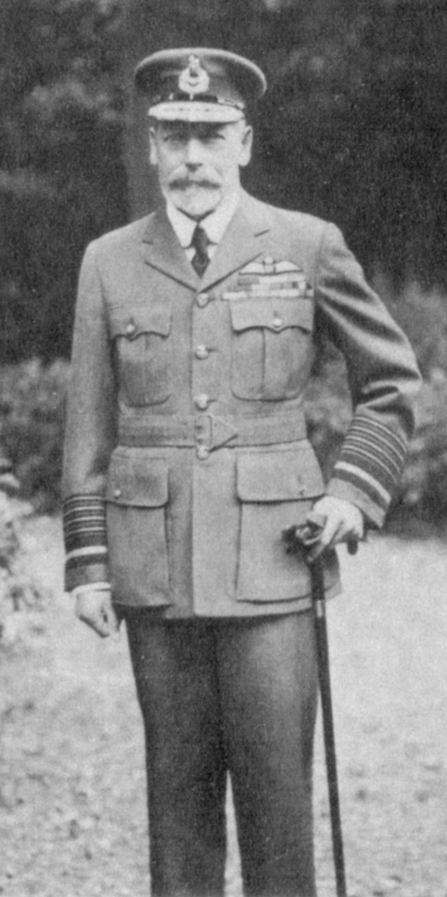 King George V is pictured in the uniform of a Marshal of the Royal Air Force at Mildenhall. This image is a crop from a picture depicting the future King Edward VIII (as Prince of Wales), King George V and the future King George VI (as Prince Albert). The uncropped photograph was scanned from Finn, C. J. et al (2004). Air Publication 3003. HMSO. The entire publication, including its photographs, was issued under Crown Copyright. Although copyright for the publication is dated at 2004, the Crown Copyright on the photographs starts from the date when they were taken. King George died in 1936 and so this photograph is more than 50 years old, placing it in the public domain.